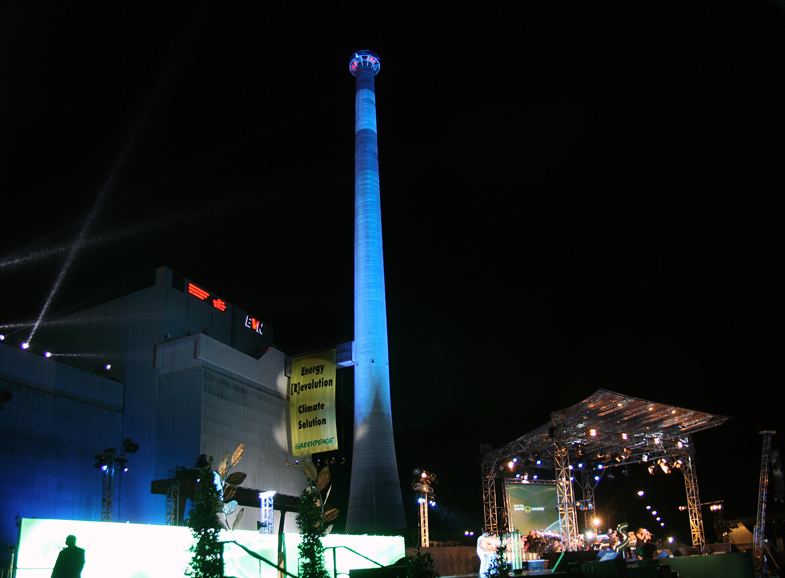 Zwentendorf Nuclear Power Plant during Save the World Awards ceremony 2009.